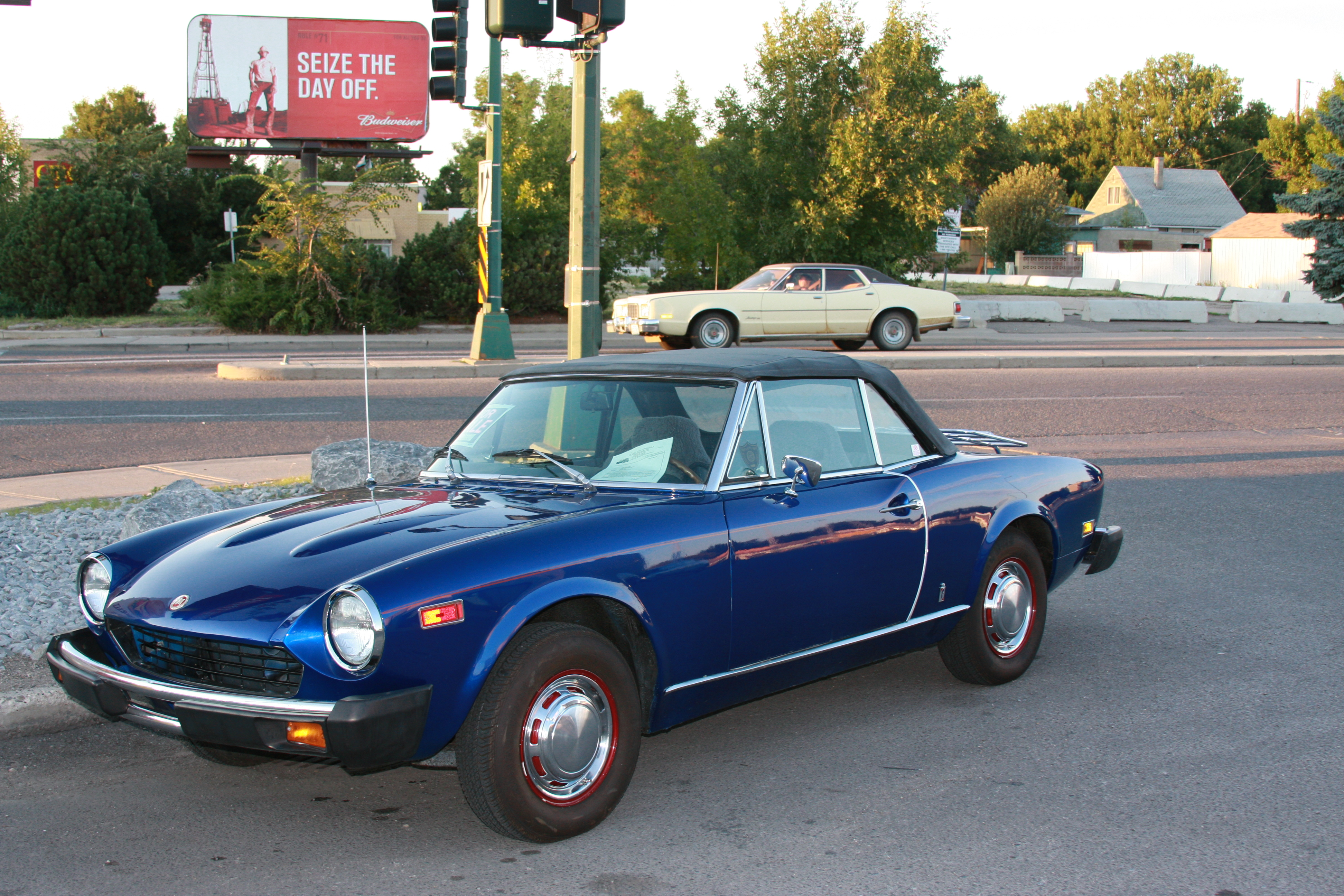 1975 Fiat Spider. Without the beer ad behind this could have been a shot from the 70s.